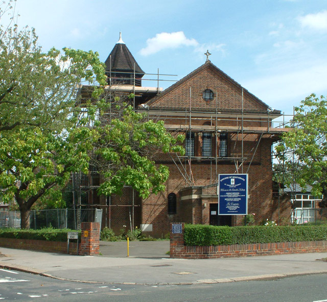 St Oswald's parish church, Green Lane, Norbury, London SW16, seen from west-southwest